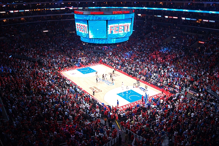 Stapes Center prior to the tip-off of Game 5 of the First Round series 2015 NBA Playoffs between the San Antonio Spurs and the Los Angeles Clippers. This photograph was taken with an Olympus E-510 DSLR camera and edited (crop, brightness, contrast) using ArcSoft PhotoStudio 5.5